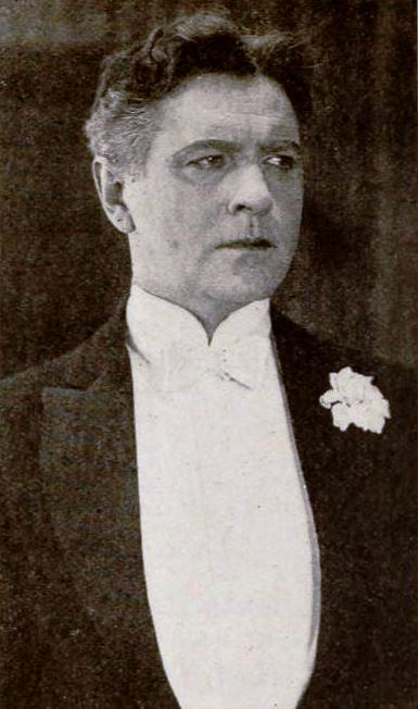 Still with Glen White (listed in the caption as Glenn White) as Tex from one of the mystery films he made with Arrow Films in 1920, on page 62 of the August 21, 1920 Exhibitors Herald.